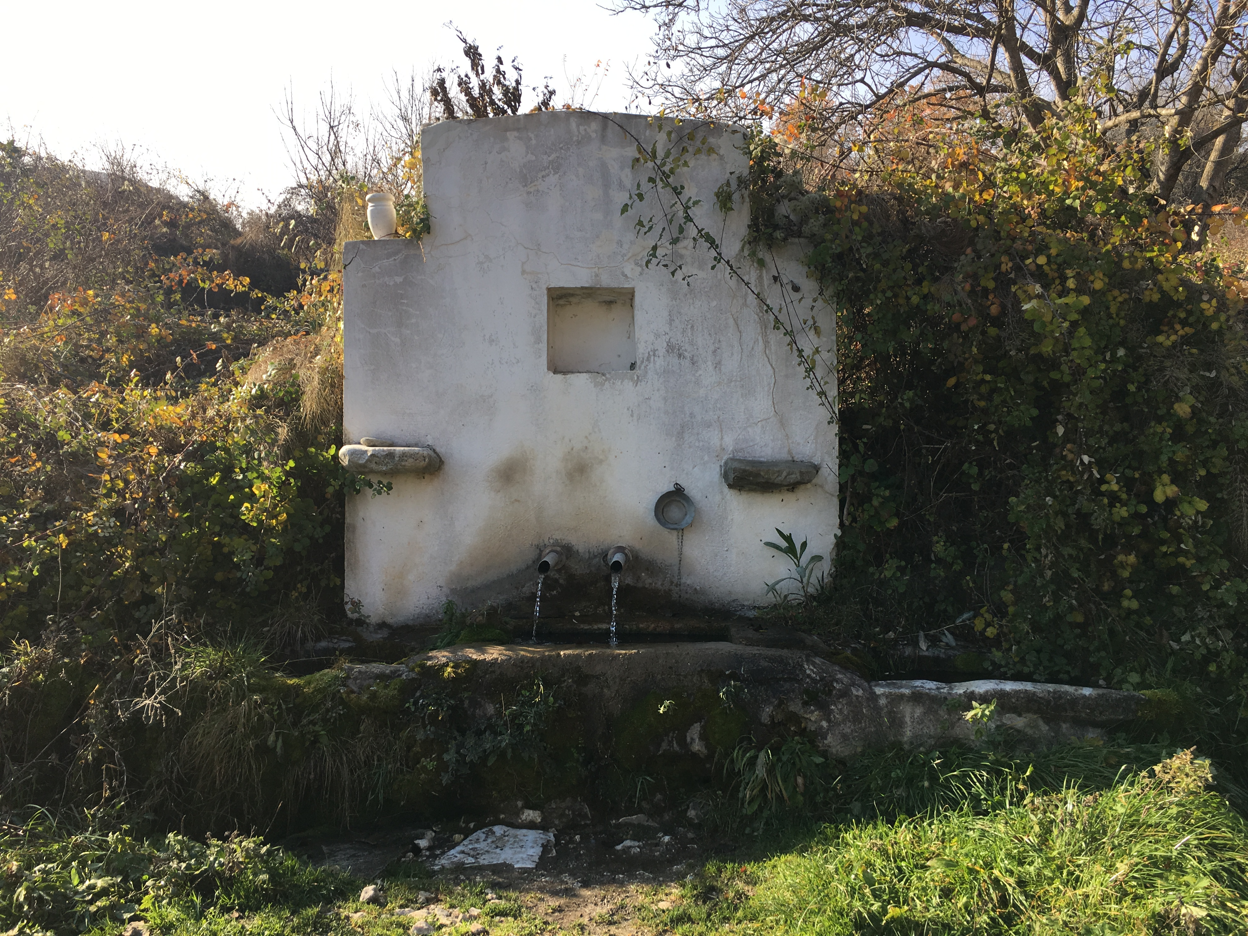 Village pump in Trojaci